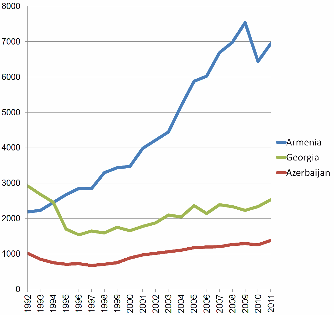 Agriculture value added per worker (constant 2005 US$), Transcaucasia countries (Armenia, Georgia, Azerbaijan) World Bank database